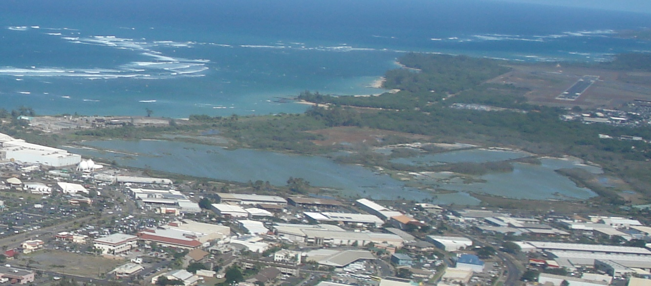 Aerial view of Kanaha Pond State Wildlife Sanctuary — on Maui, Hawaiʻi. A National Natural Landmark in Hawaii.